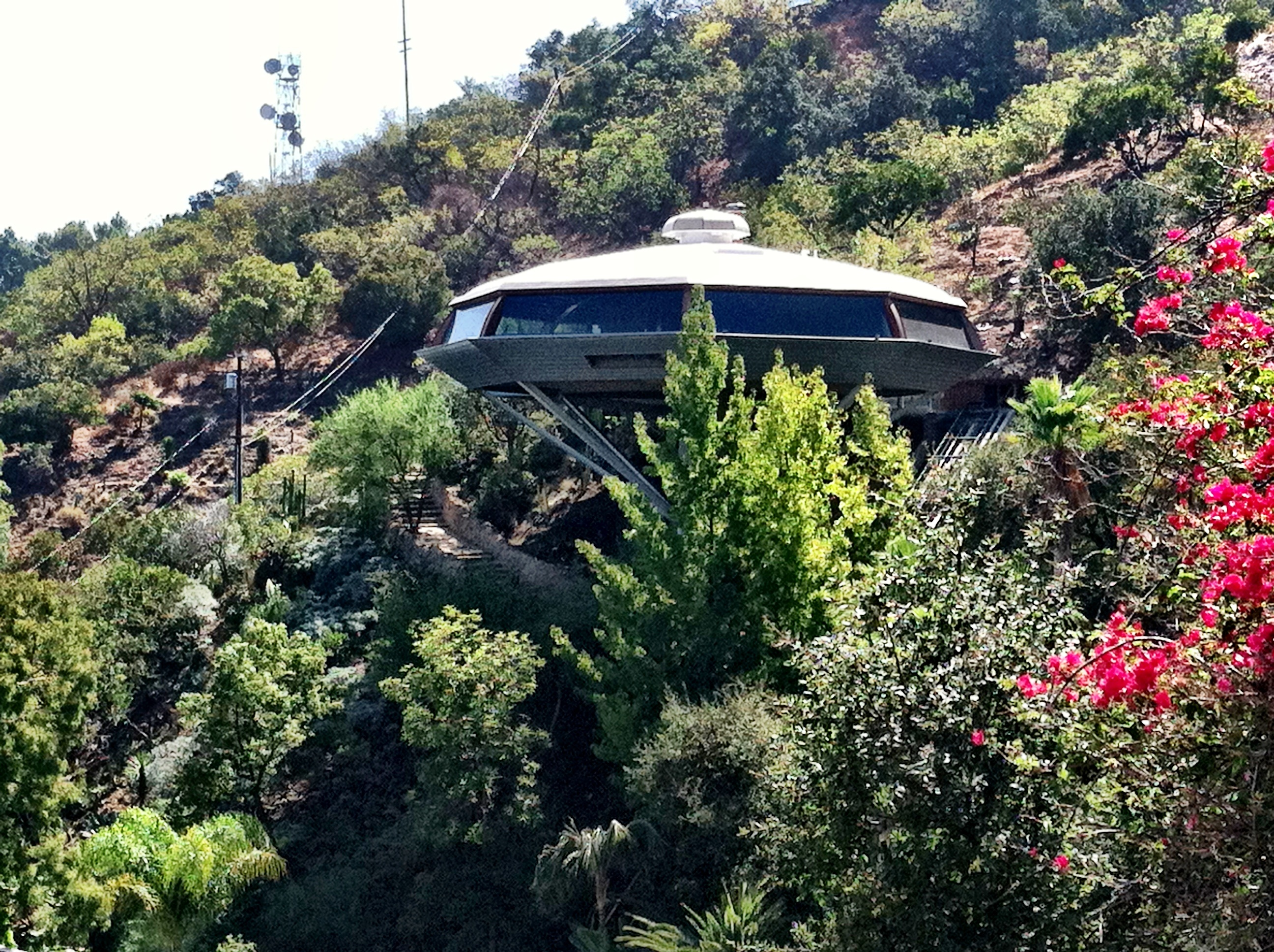 Chemosphere (Leonard Malin House) — in the Hollywood Hills above the San Fernando Valley, Los Angeles, California. The 1960 residence, designed by Modernist architect John Lautner, is a Los Angeles Historic-Cultural Monument.